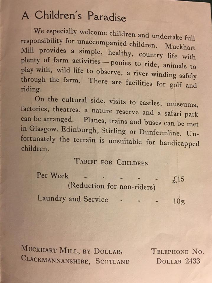 Muckhart Mill Holiday home Brochure page 2